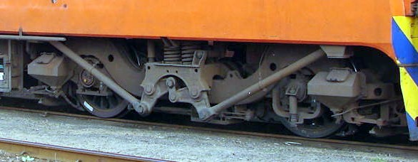 Bogie detail on Class 6E1 Series 1 no. E1232Location: Bayhead Depot, Durban, Kwa-Zulu Natal